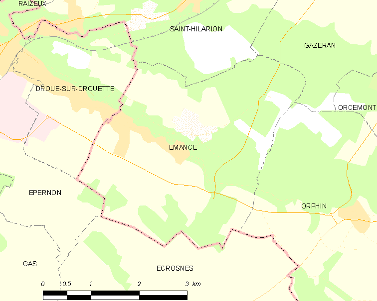 Map of French municipality Émancé